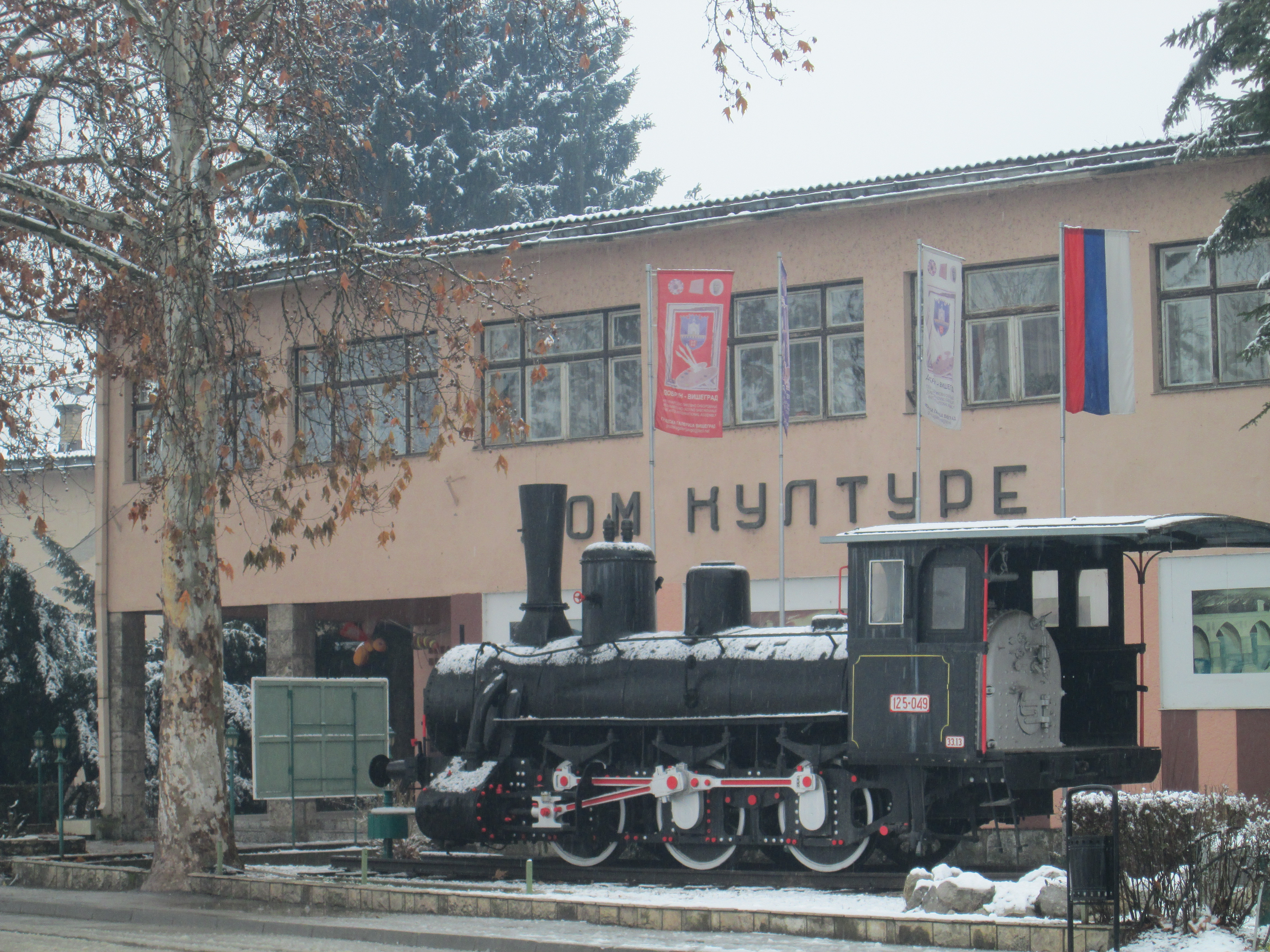 Editing Wikipedia Workshop in Visegrad - Photo tour around Visegrad, City Cultural CentreСрпски (ћирилица): Радионица уређивања Википедије у Вишеграду - Фото тура по Вишеграду, Дом културе